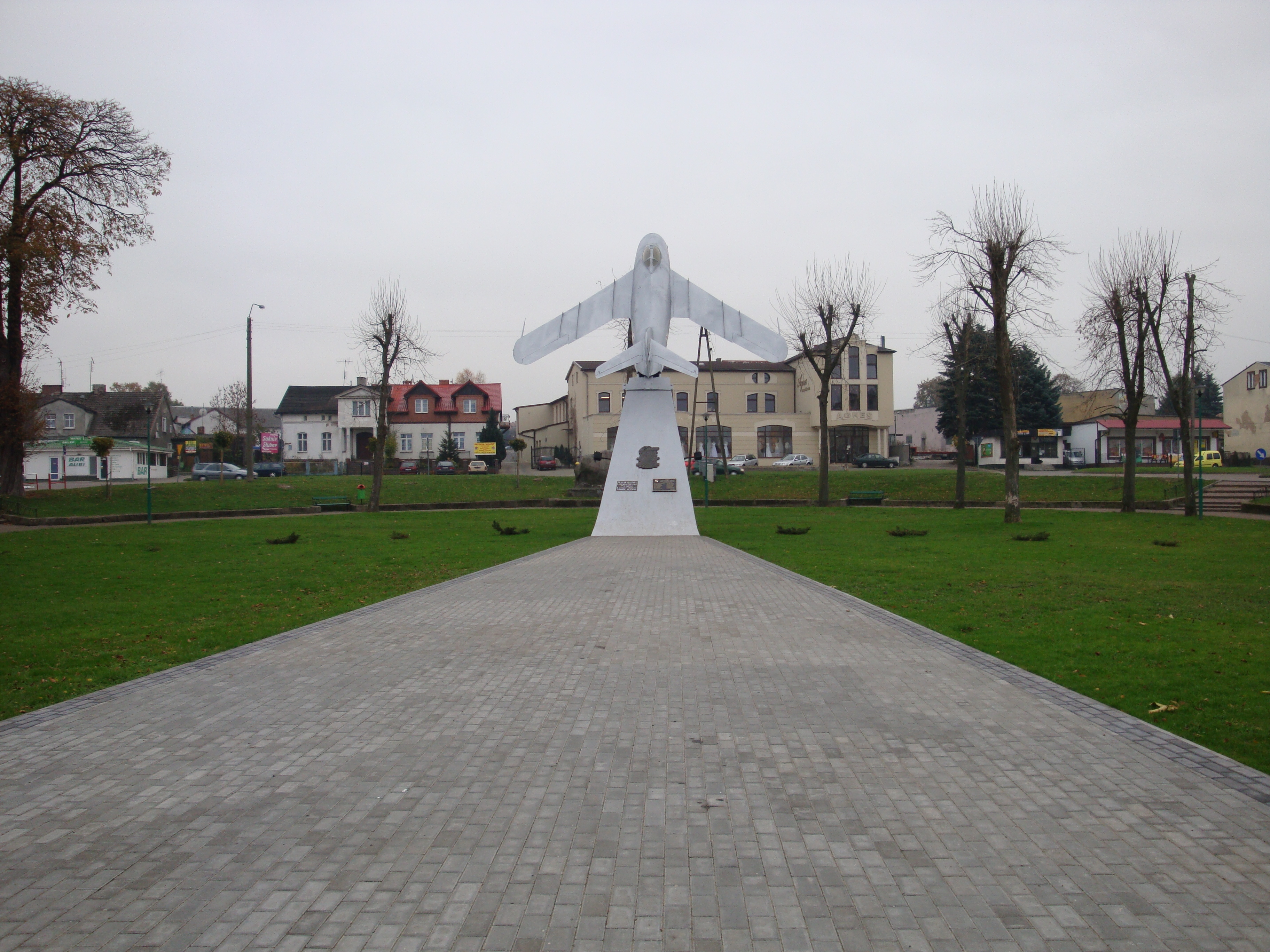 Lotnikow Square in Swidwin